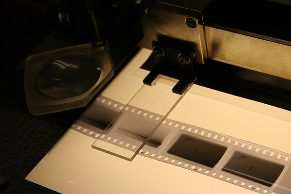 Photometer